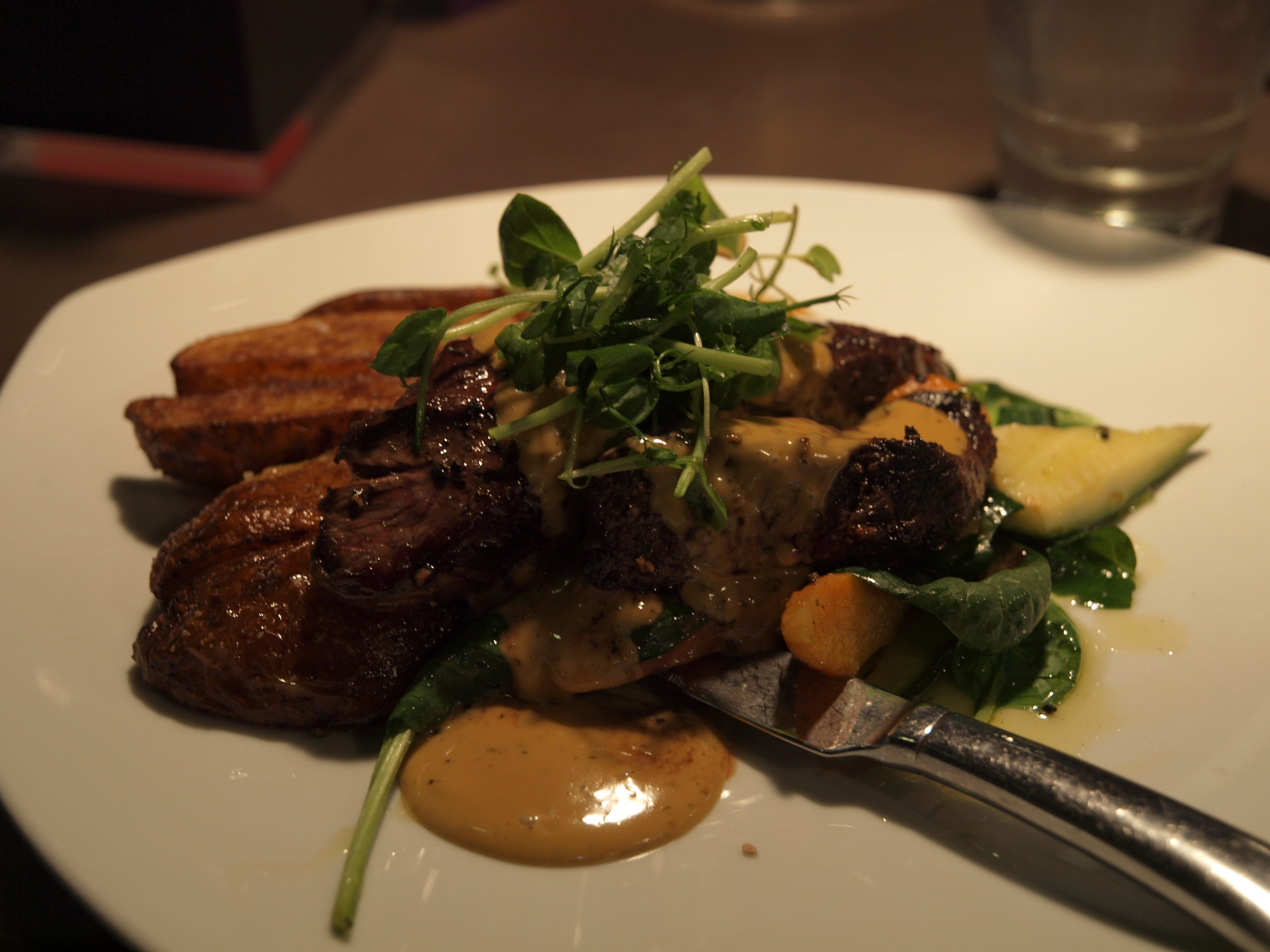 A plate of kangaroo meat in thyme bearnaise sauce and potatoes, served at restaurant Memphis in Kamppi, Helsinki, Uusimaa, Finland.